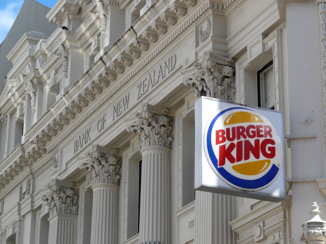 The Bank of New Zealand, Cuba St, Wellington is a Category I heritage building. It now sells burgers.